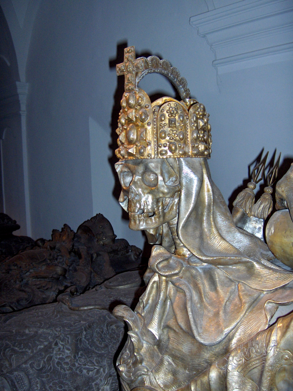 Tomb of emperor Karl VI (1685-1740); Kaisergruft, Vienna. Detail with the crown of the Holy Roman Empire (by Balthasar Ferdinand Moll)